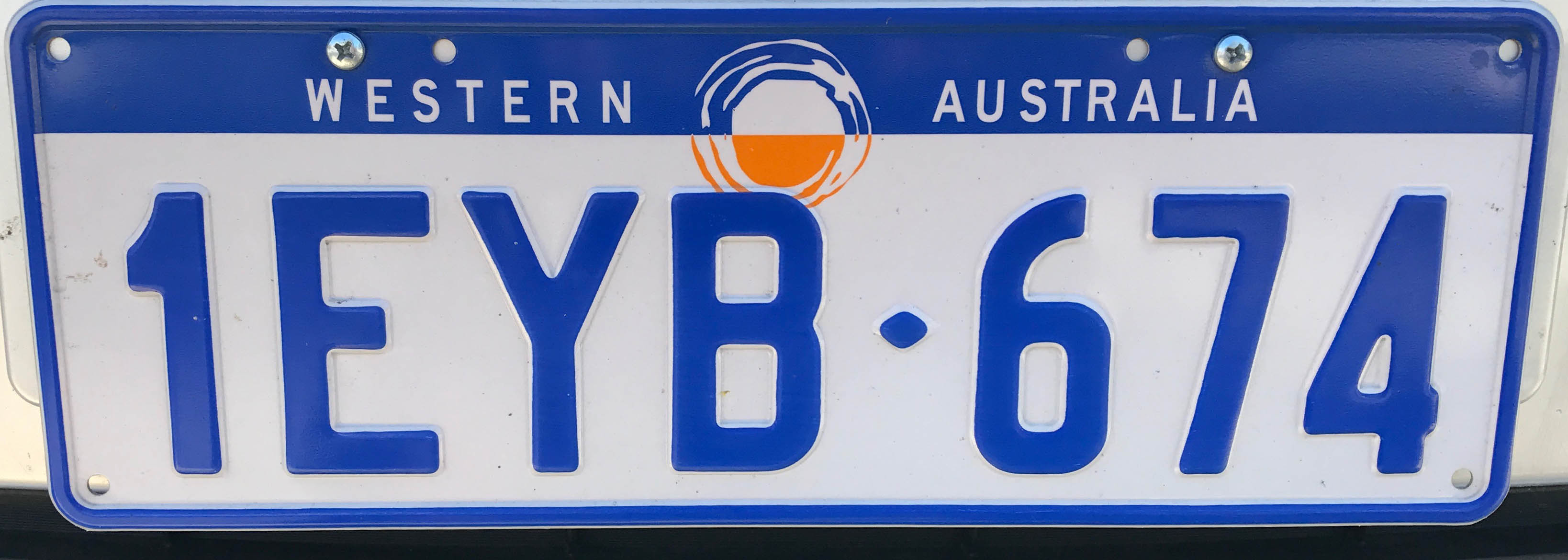 General issue vehicle registration plate of Western Australia, standard size, 1EYB-674.